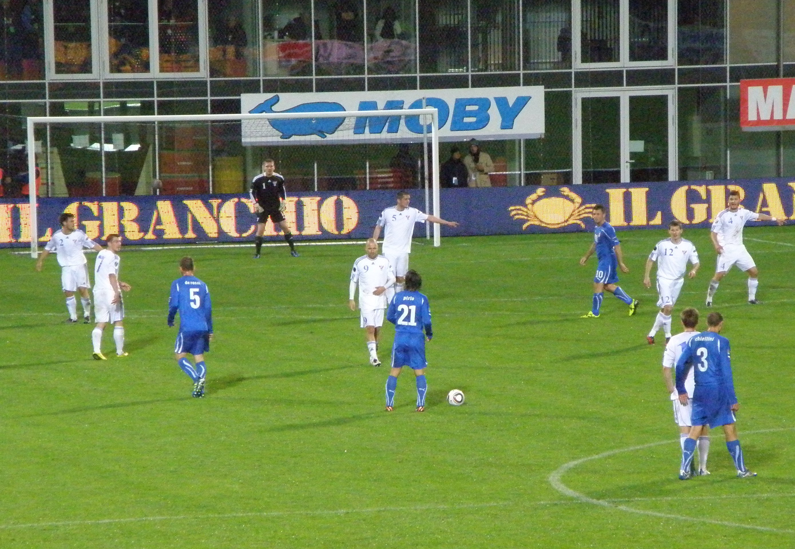 Football match on Tórsvøllur in Tórshavn. The match was a Euro Qualifier between Faroe Islands and Italy. The result was 0-1. Føroyskt: Landsdystur millum Italia og Føroyar hin 2. september 2011 á Tórsvølli. Iitalia vann dystin, úrslitið gjørdist 0-1.